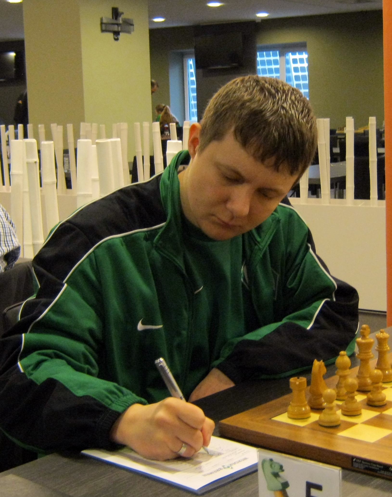 Alexander Areshchenko, chess grandmaster from Ukraine